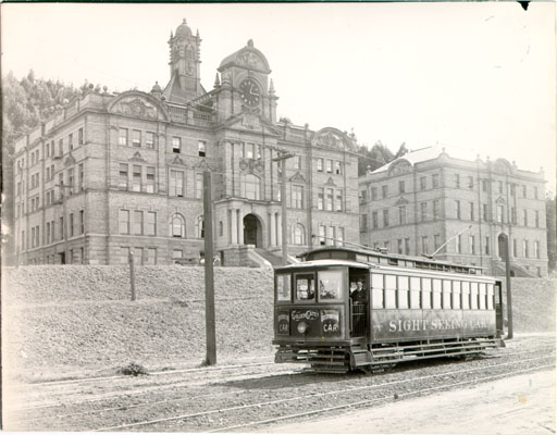 University of California, San Francisco in 1908. A streetcar used to run up Parnassus Avenue.